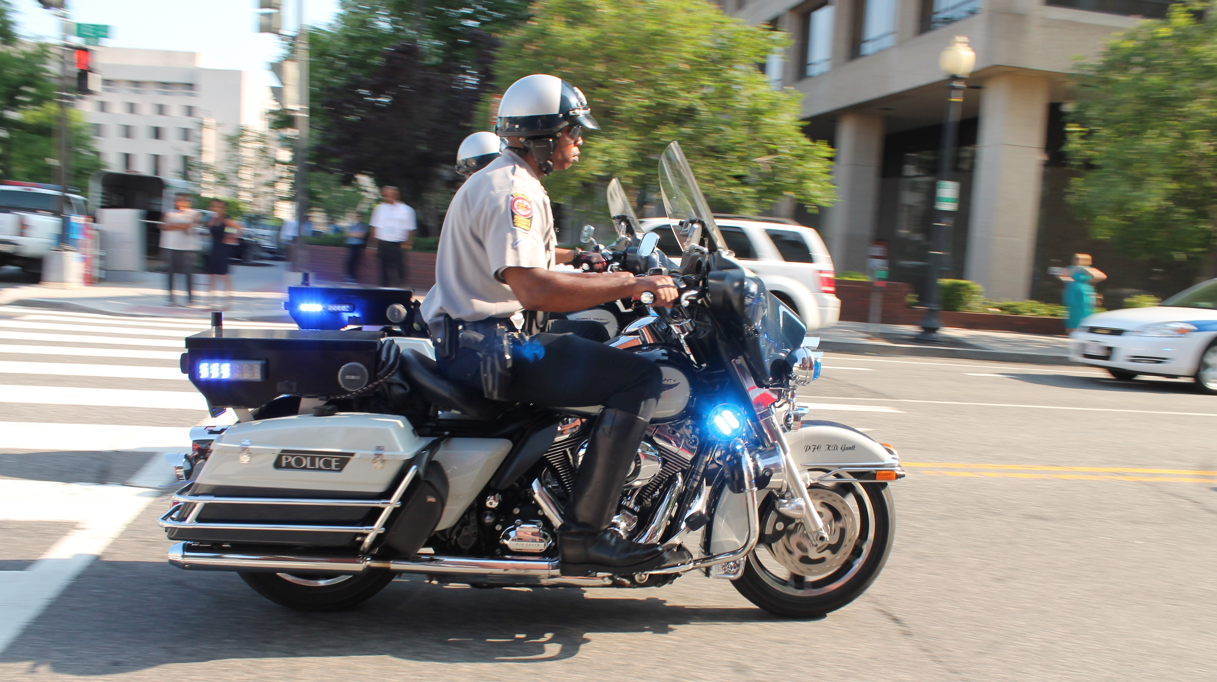 2014 National Police Week: Assemblance Before 26th Annual Candlelight Vigil at the National Law Enforcement Officers Memorial in the 400 block of E Street, NW, Washington DC on Tuesday evening, 14 May 2014 by Elvert Barnes Photography Police Motor Escort Series Fairfax County Police / Motorcycle Unit Visit National Police Week website at Visit Elvert Barnes 2014 National Police Week docu-project at